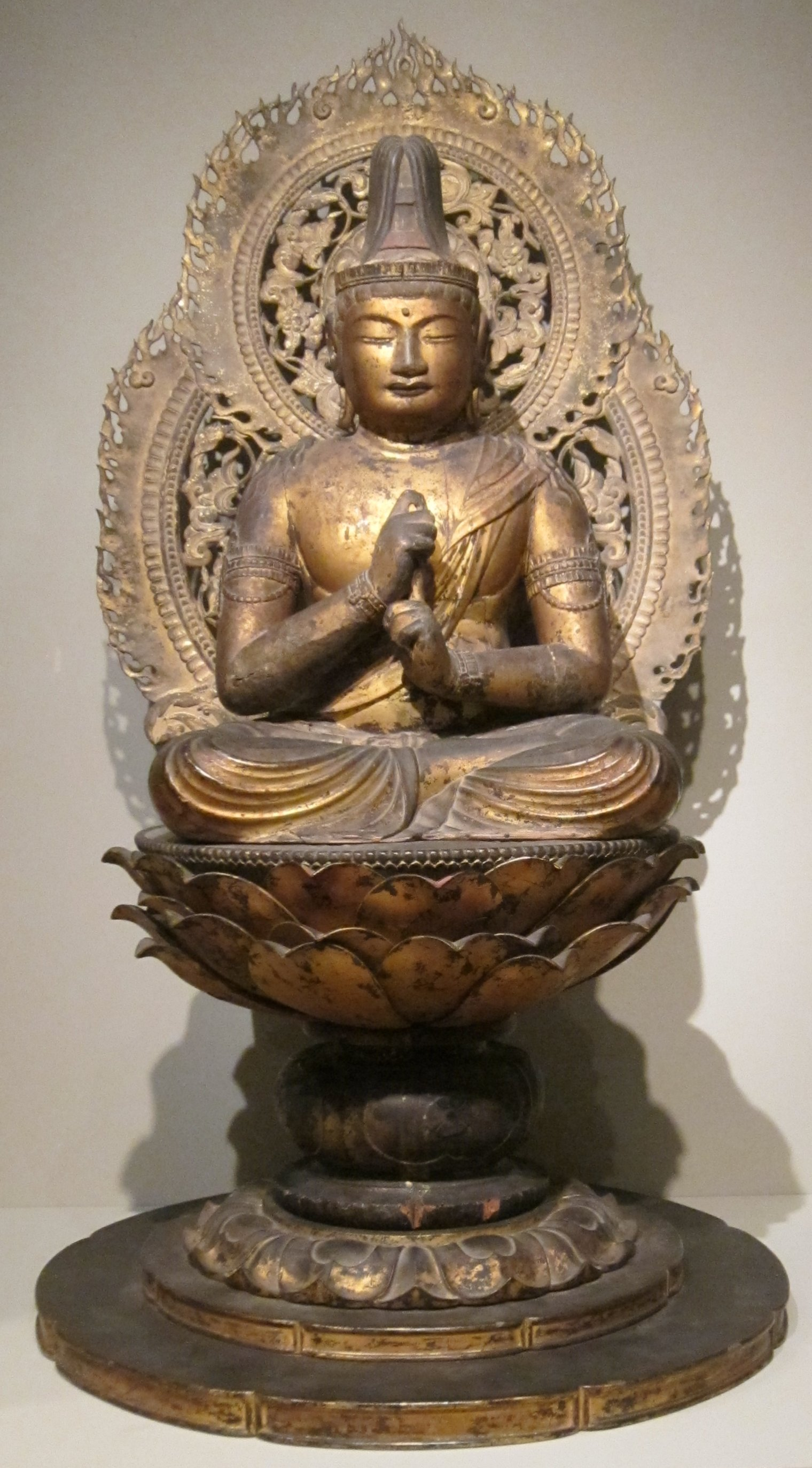 Dainichi Nyorai (Great Buddha of Universal Illumination) Japan, Heian period, early 10th Century Wood, gold lacquer Honolulu Academy of Arts Gift of Mr. Robert Allerton, 1960 (2652.1)